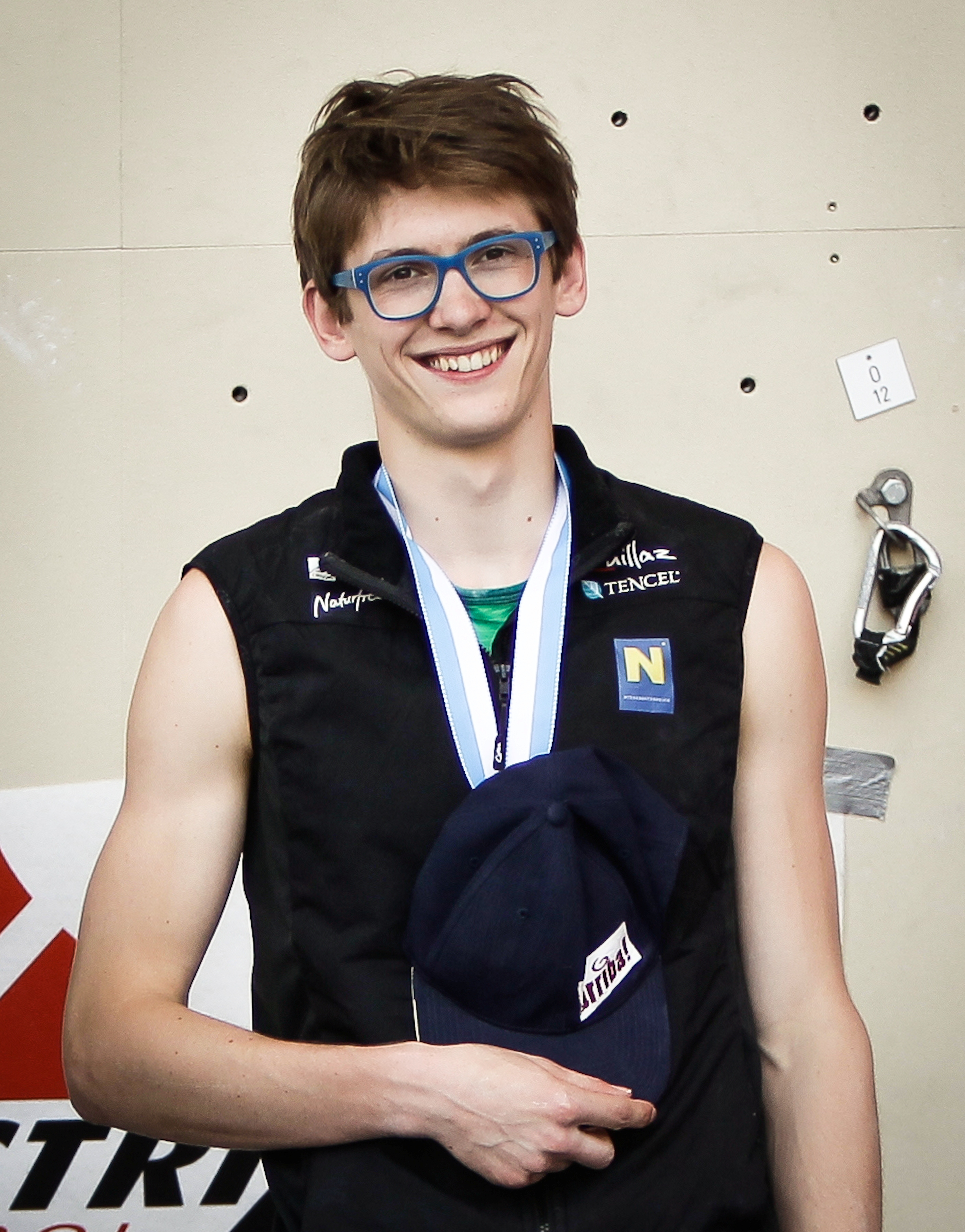 Portrait of Georg Parma at European Youth Cup in Mitterdorf (AUT), 2015